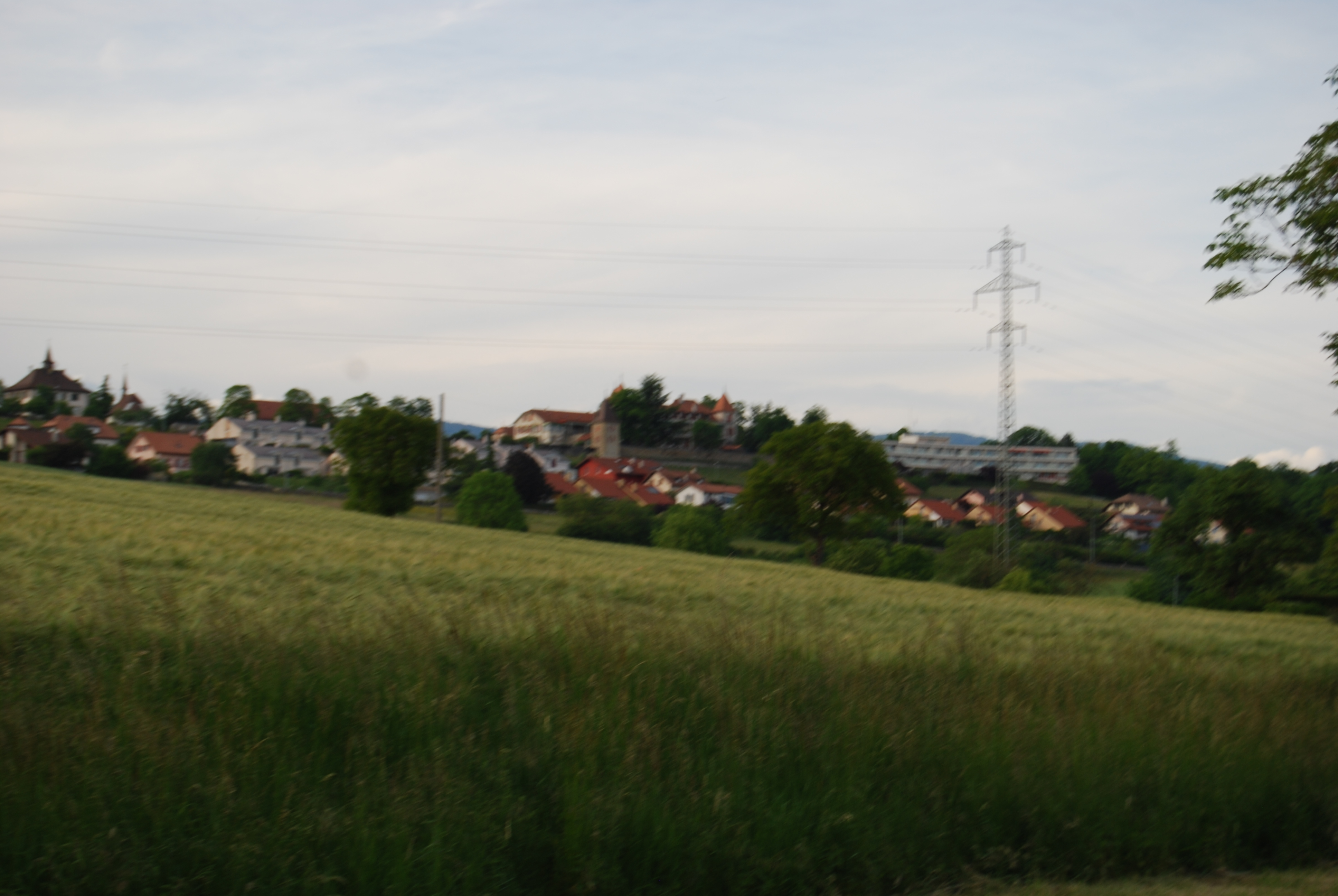 Chamblon, canton of Vaud, SwitzerlandEsperanto: Chamblon, Kantono Vaŭdo, Svislando